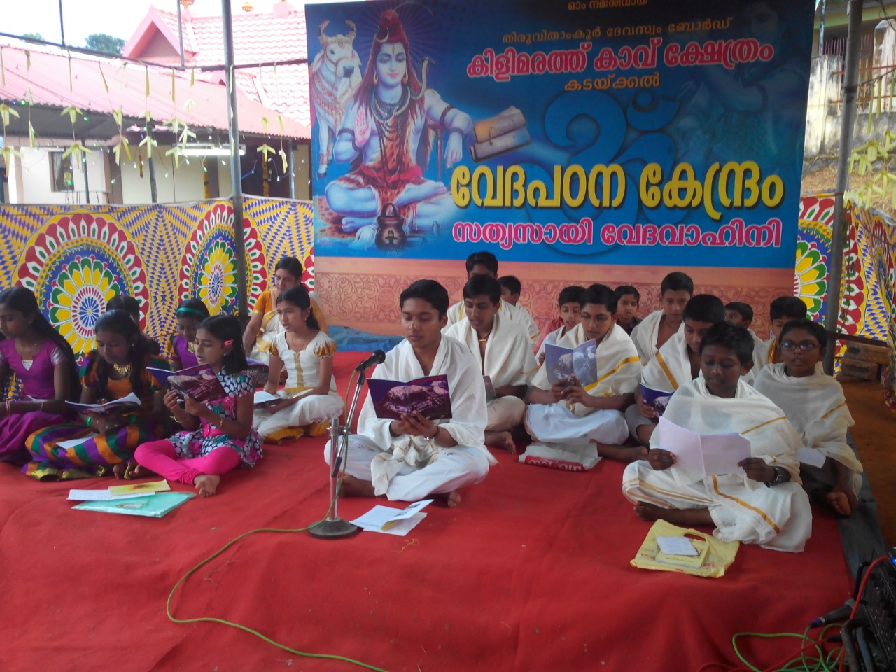 Vedha class